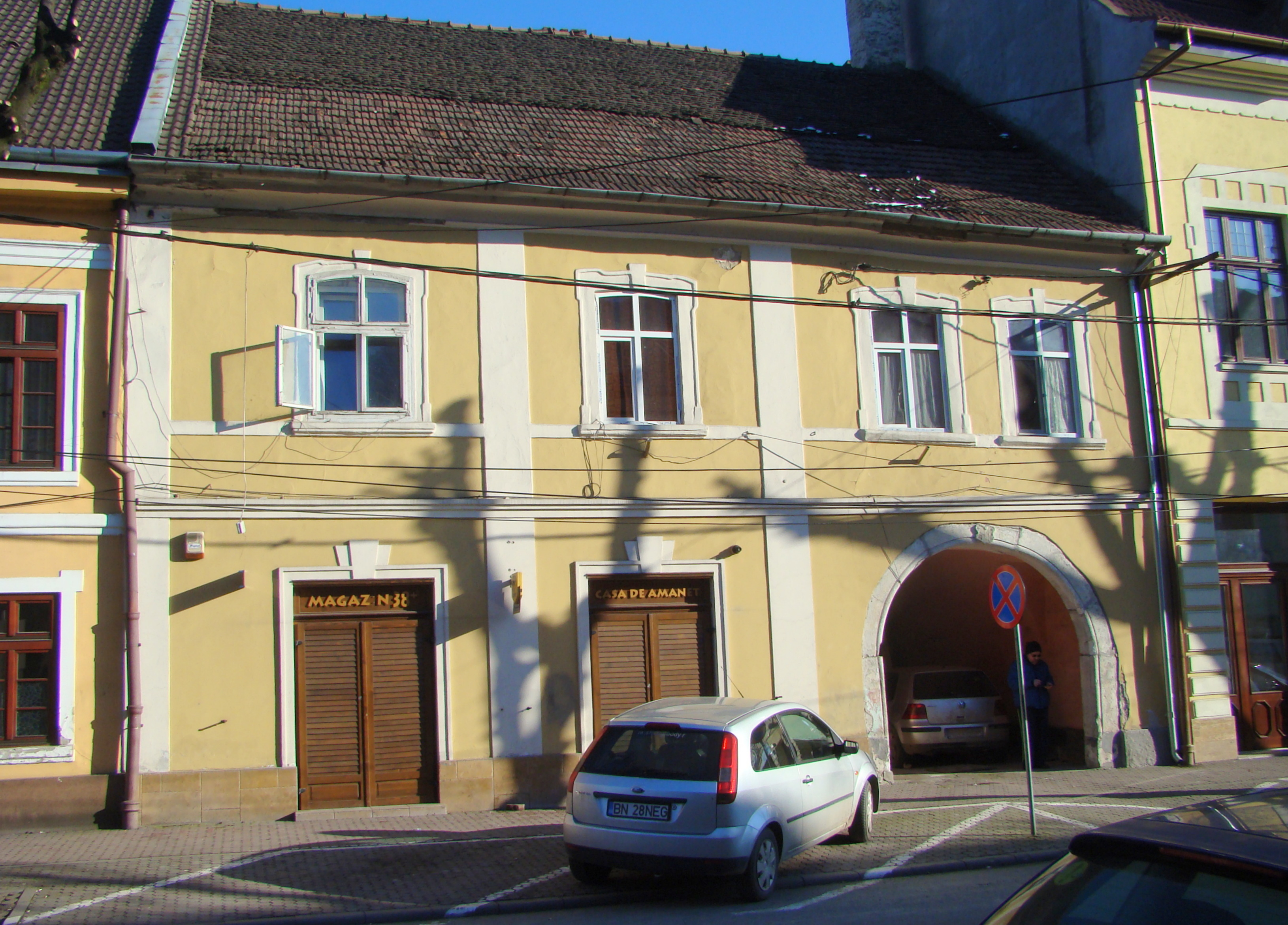 House, historic monument, in Bistriţa, Dornei street, number 11